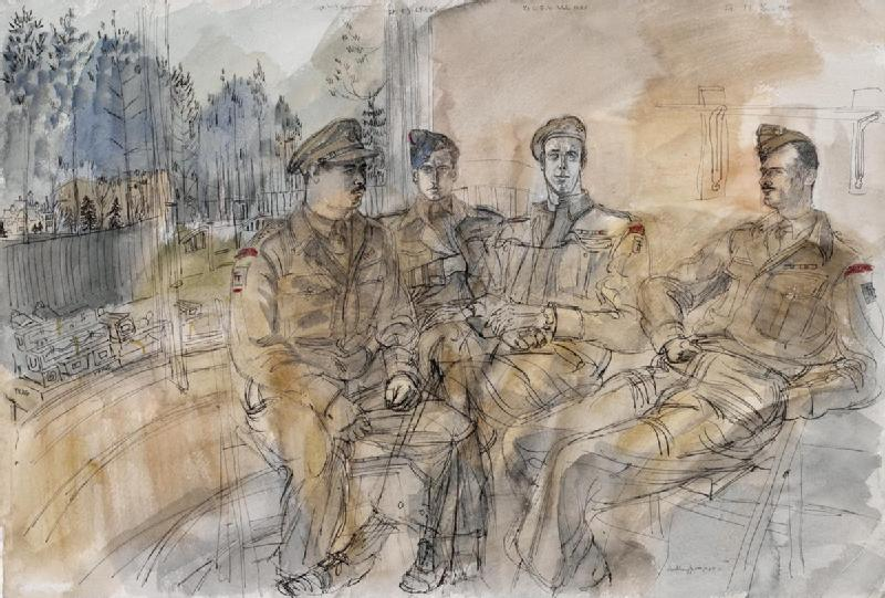 The 50th (northumbrian) Division, 1944- 5th Battalion, East Yorkshire Regiment - Captain W J Sugarman ; Lieutenant T F Lowe Mc; lieutenant-colonel G W White ; Lieutenant E J Crews image: The four officers are relaxing, seated on a balcony overlooking woodlands. In the street below, a vehicle is approaching a gate in a fence surrounding a large house.